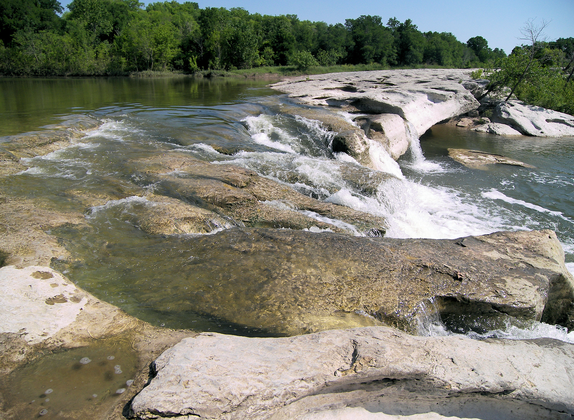 The water of Onion Creek, a tributary of the Colorado River, goes over the upper falls at McKinney Falls State Park. The limestone above the falls is documented as being a crossing point for Onion Creek on the El Camino Real de los Tejas.